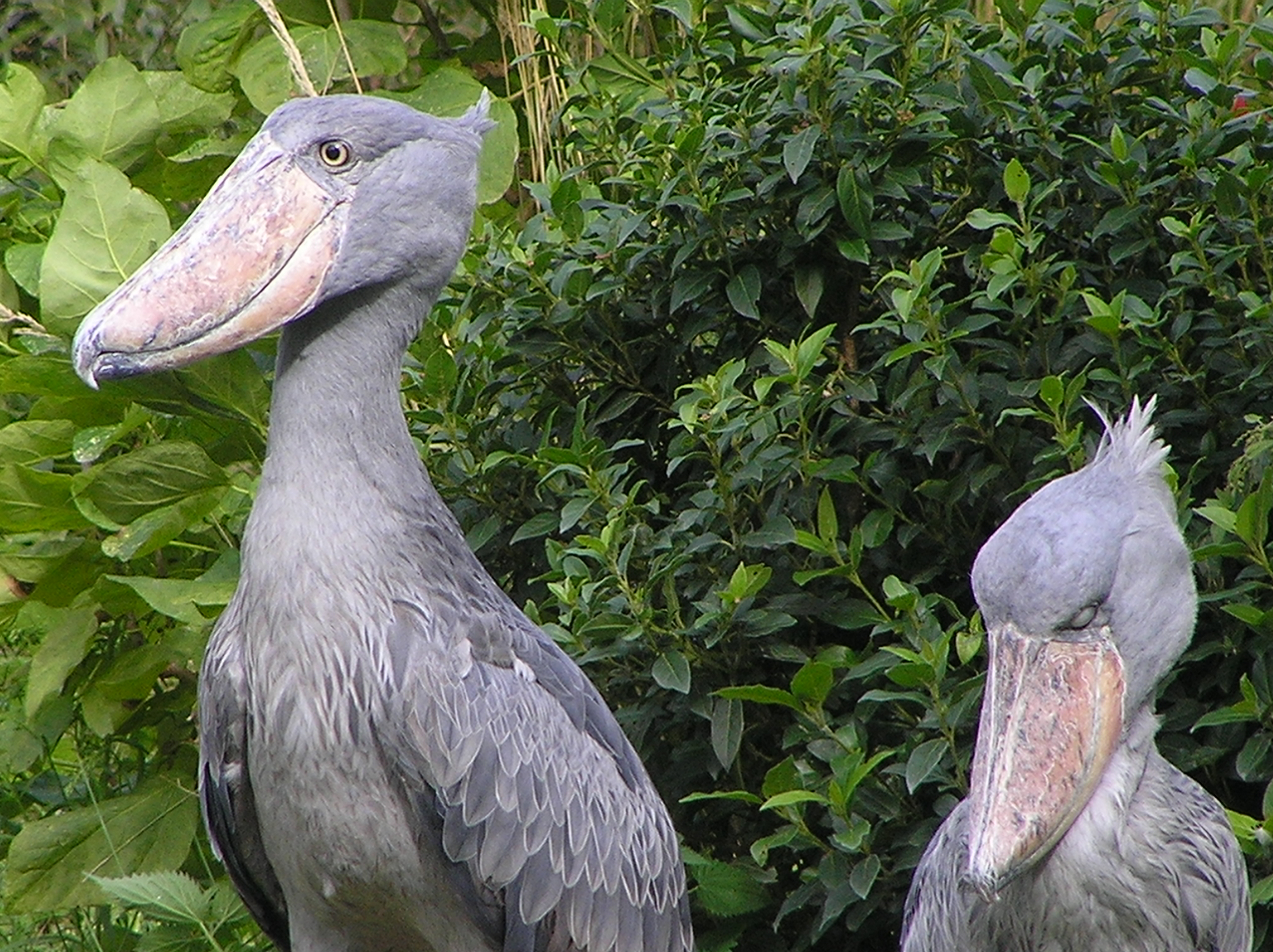 A couple of shoebills (Balaeniceps rex)